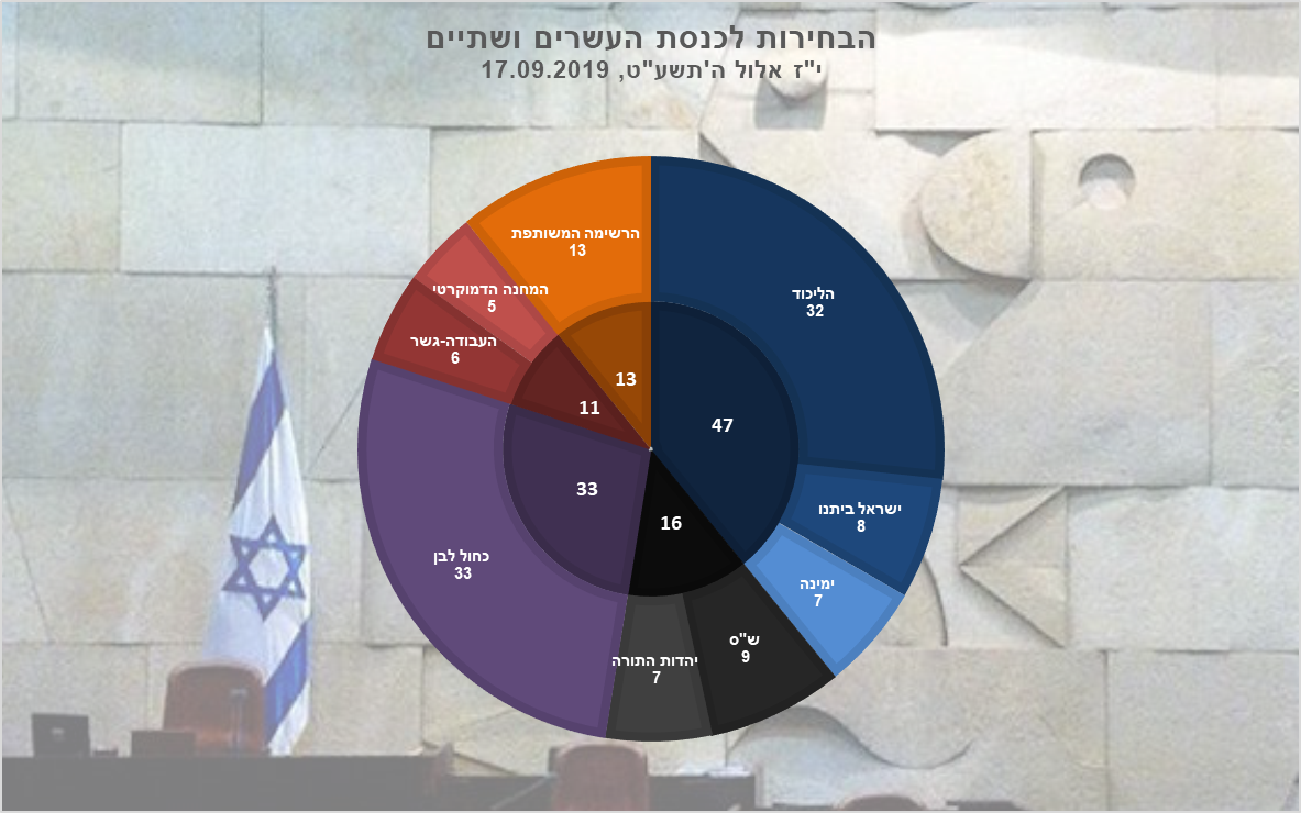 22nd Knesset